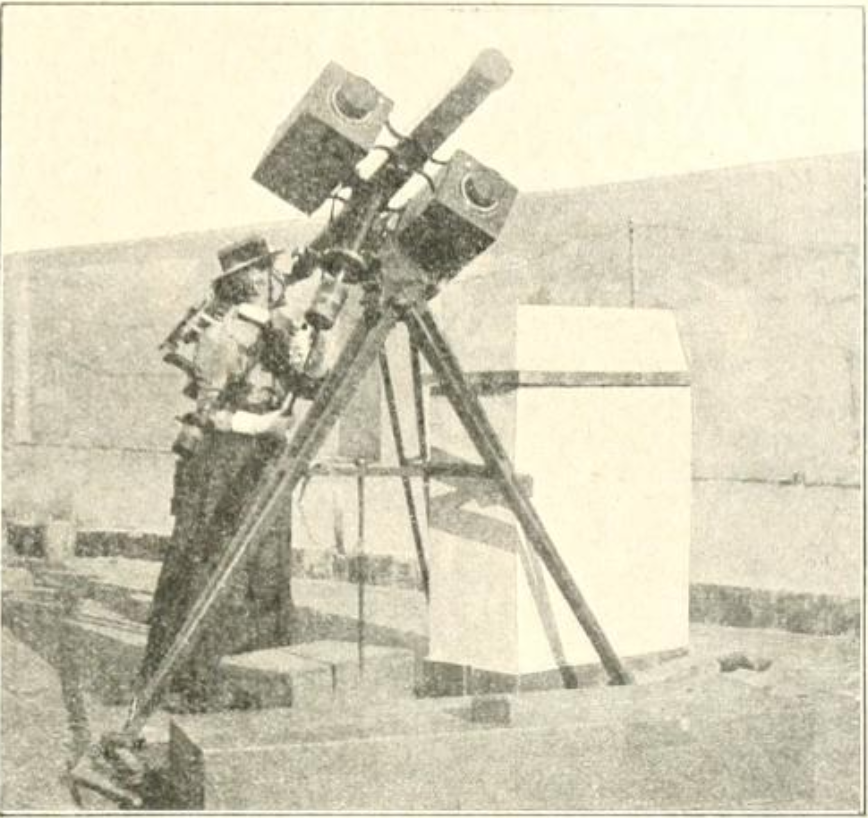 On the roof of the Hotel de la Régence, Algiers. Mrs. Walter Maunder (Annie Russell Maunder) and her Two Cameras. By Miss Edith Maunder.